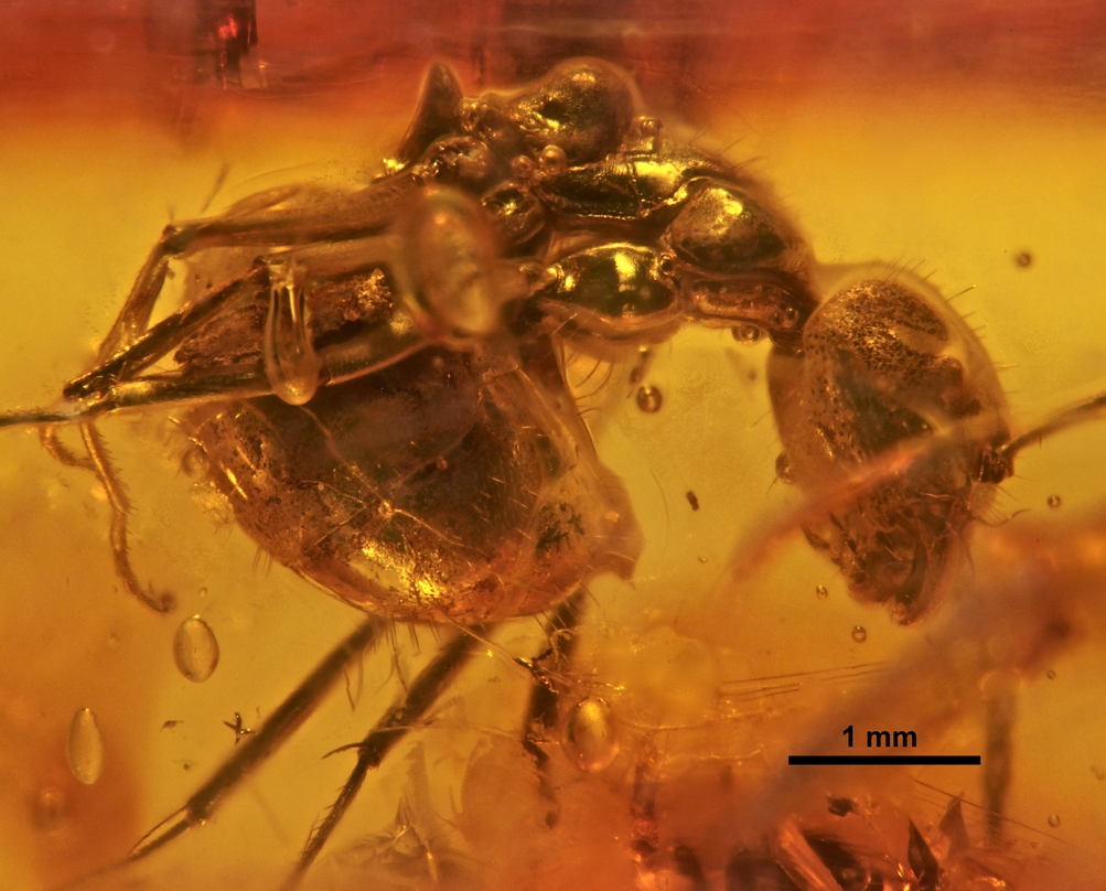 Profile view of a Dolichoderus passalomma worker. Middle Eocene; Baltic amber, Samland Peninsula, Kalingrad, Russia Geowissenschaftliches Museum der Universität Göttingen, University of Göttingen, Göttingen, Germany; specimen GZG.W.14552